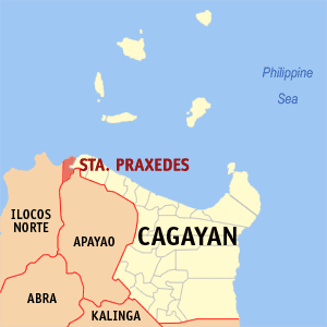 Map of Cagayan showing the location ofSanta Praxedes